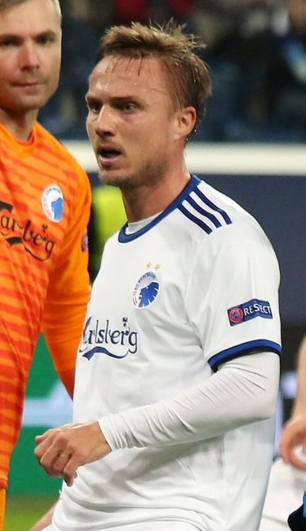 Pierre Bengtsson